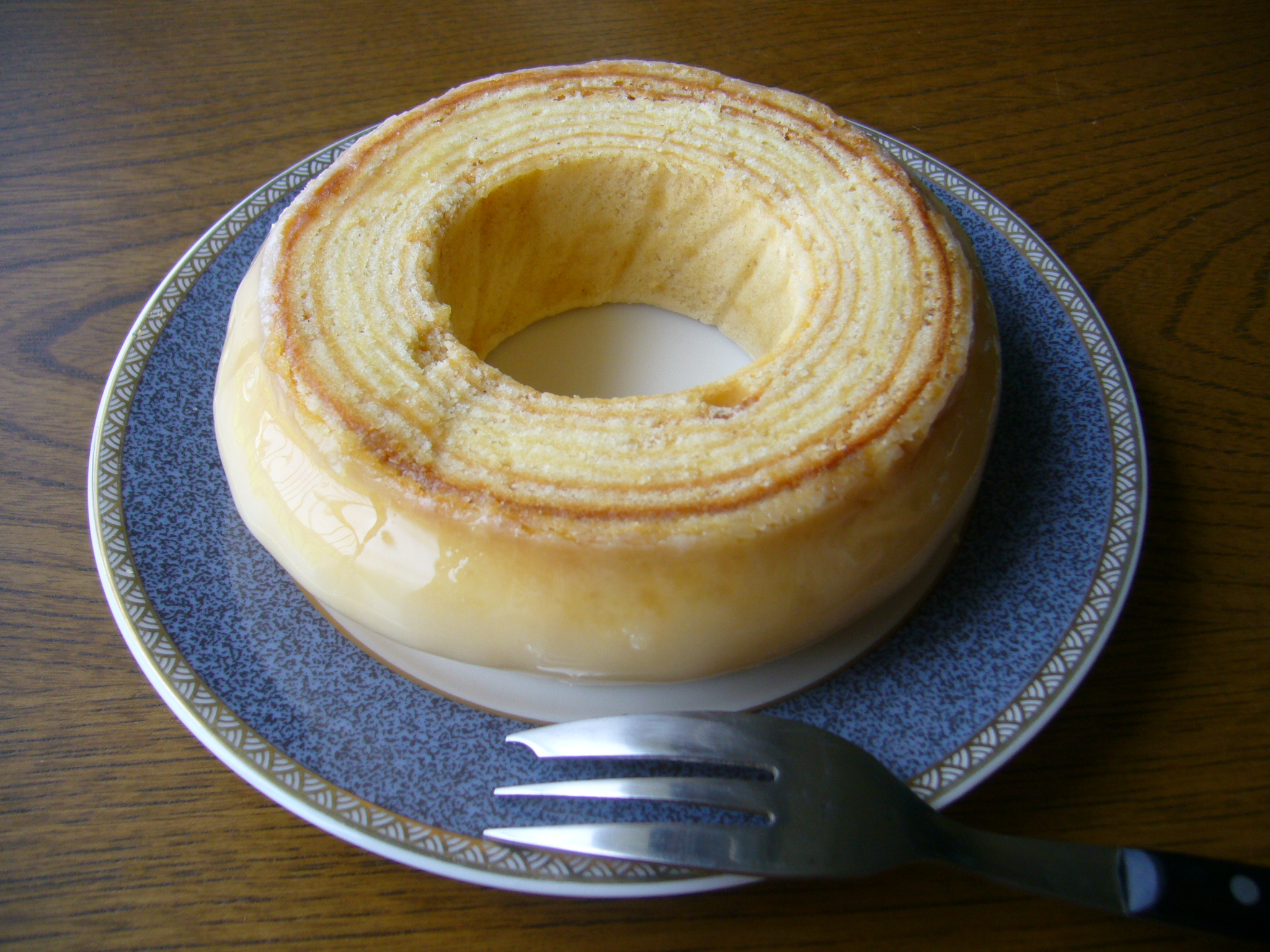 Baumkuchen,dresden,Deutschland